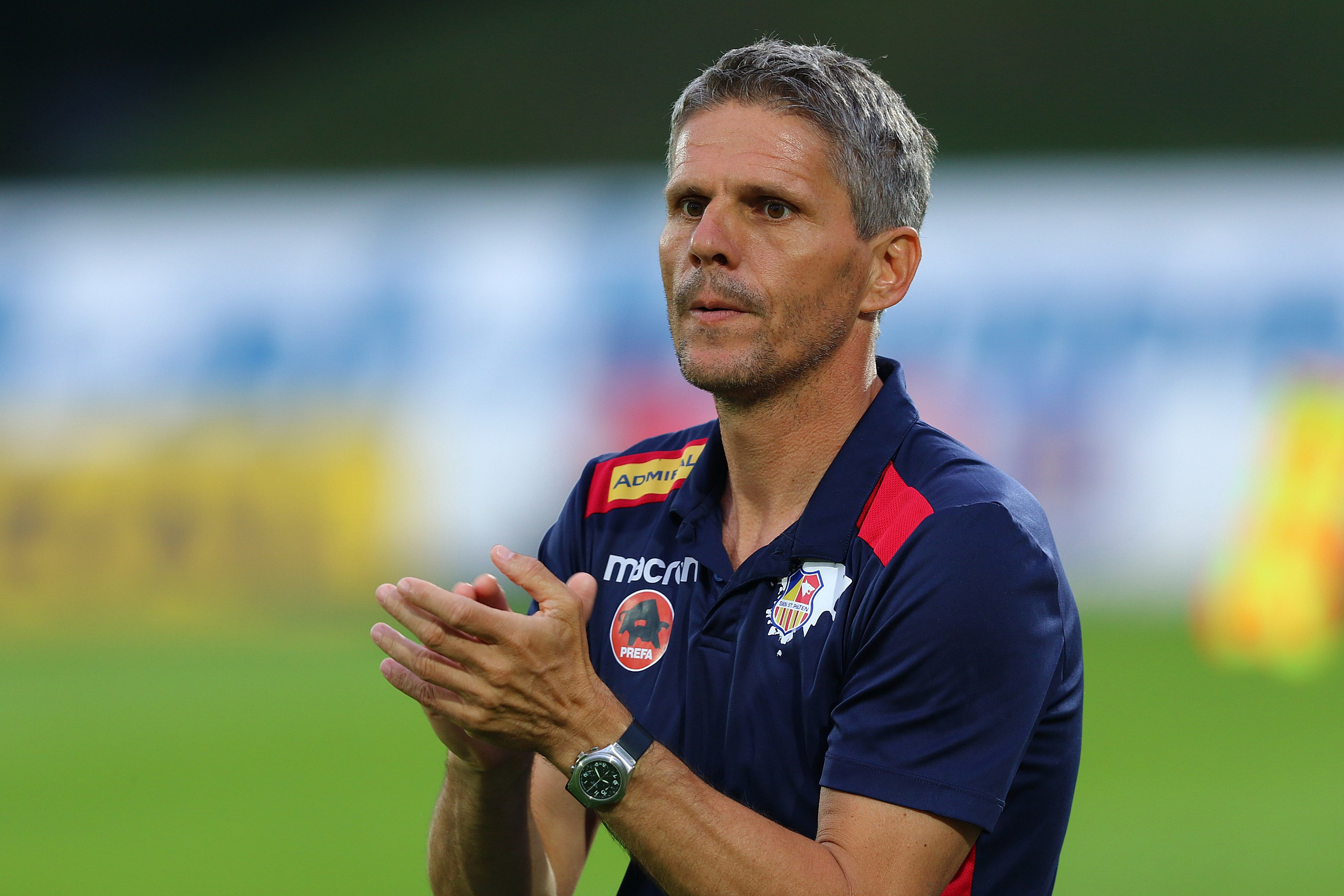 Football qualification match for the Austrian Bundesliga - SC Wiener Neustadt (white shirts) vs. SK St. Pölten (red shirts) 0-2. – The photo shows Dietmar Kühbauer (headcoach of SKN St. Pölten).